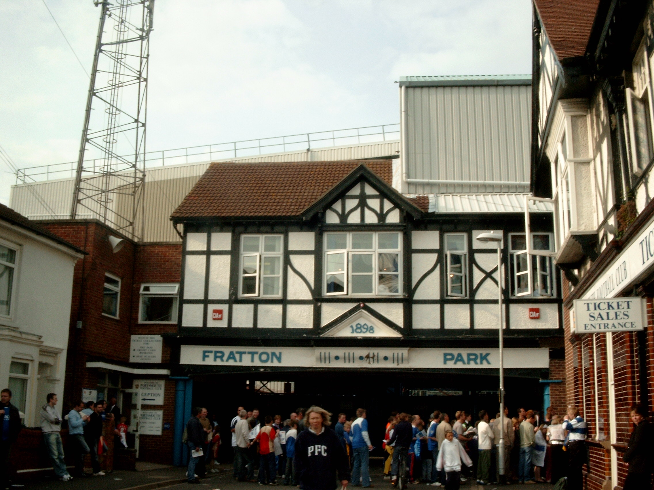 Entrance to Fratton Park football stadium, Portsmouth, UK.